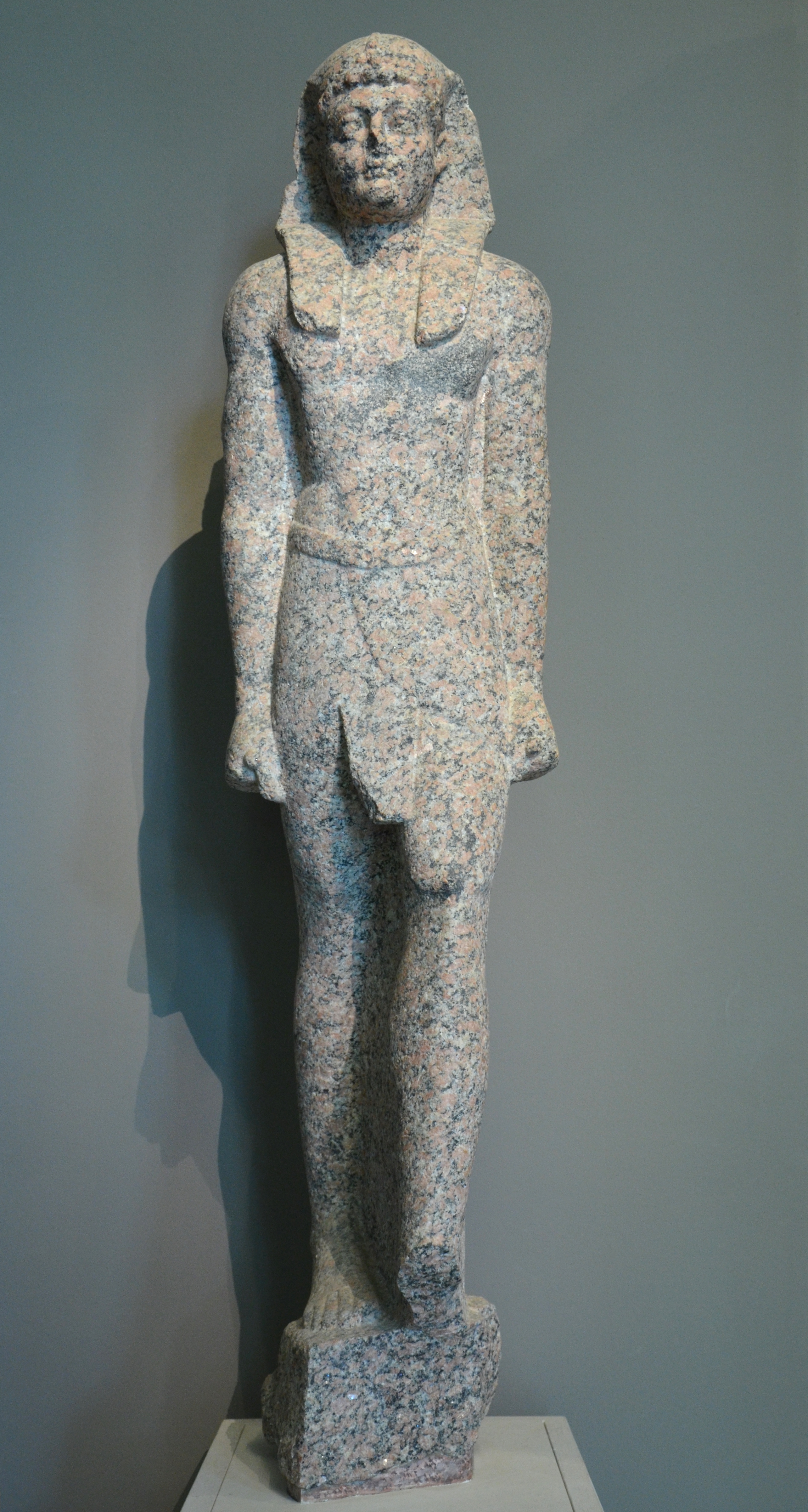 Granite statue of Alexander the Great as Pharaoh, Greco-Egyptian, c. 300 BC, Liebieghaus museum, Frankfurt